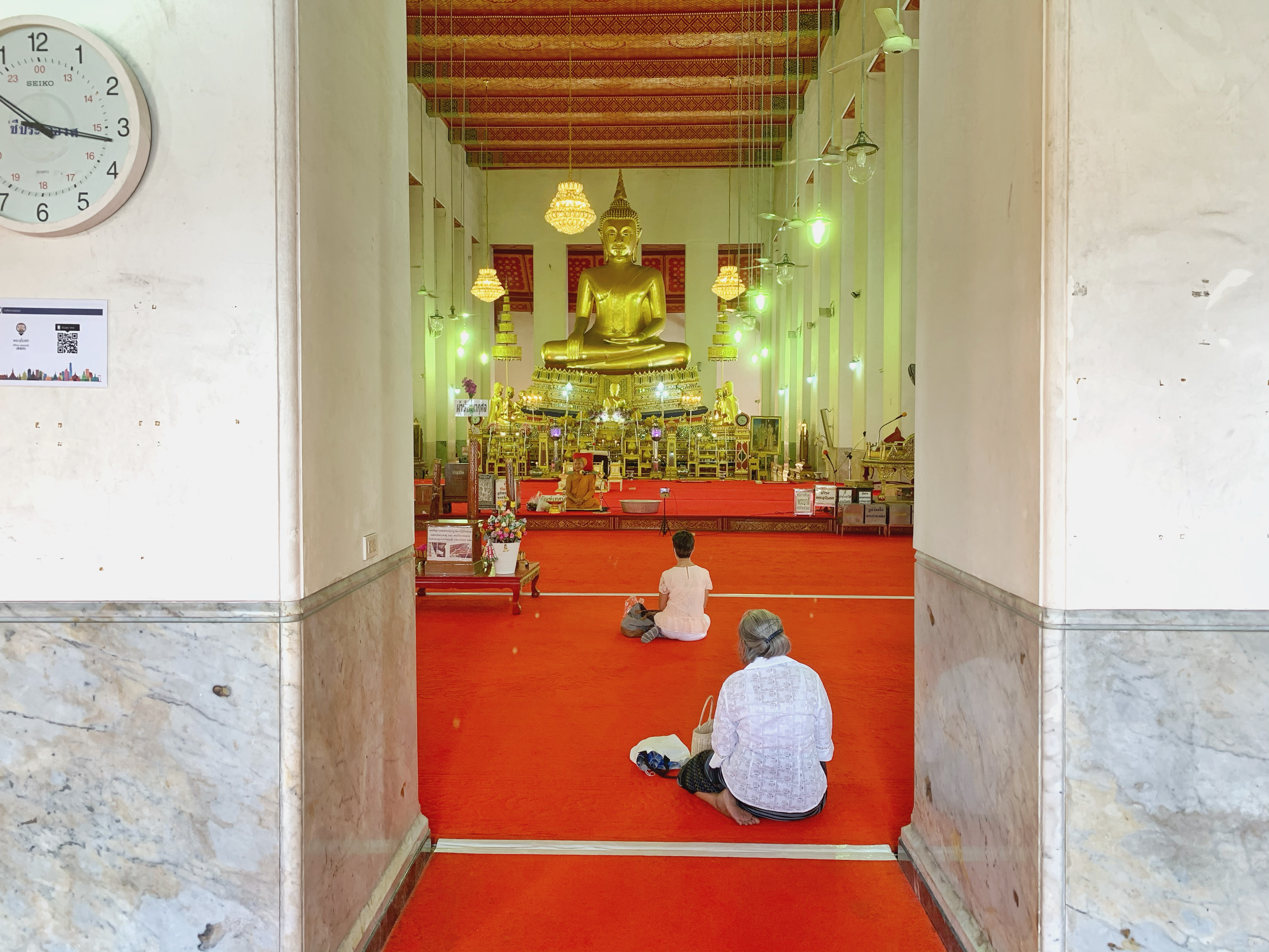 Buddhists gathering at Wat Mahathat Yuwarat Rangsarit, Bangkok on the Buddhist Atthami Bucha day are forced to keep distance between each other due to the COVID-19 pandemics in Thailand.